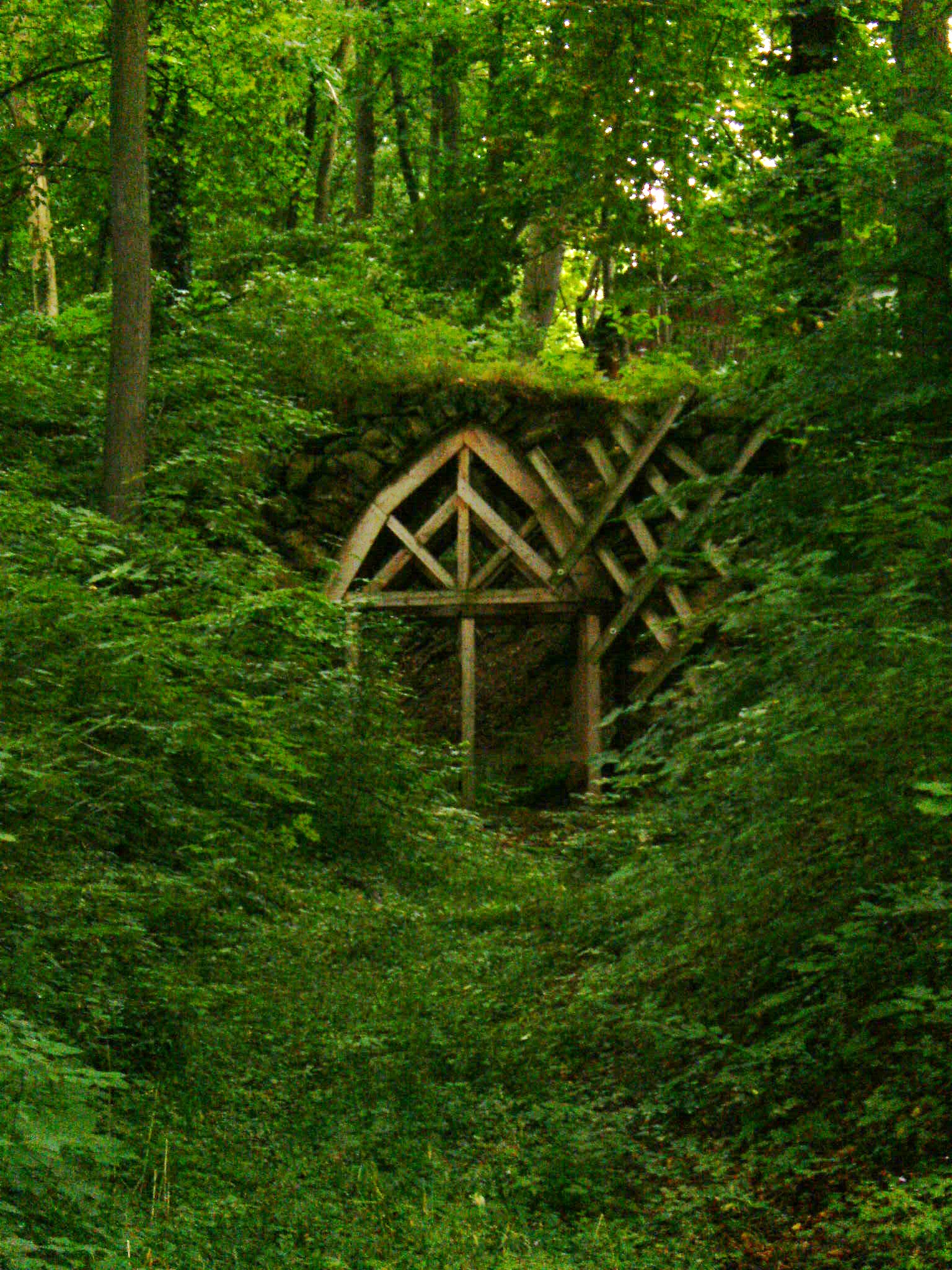 Park bridge.